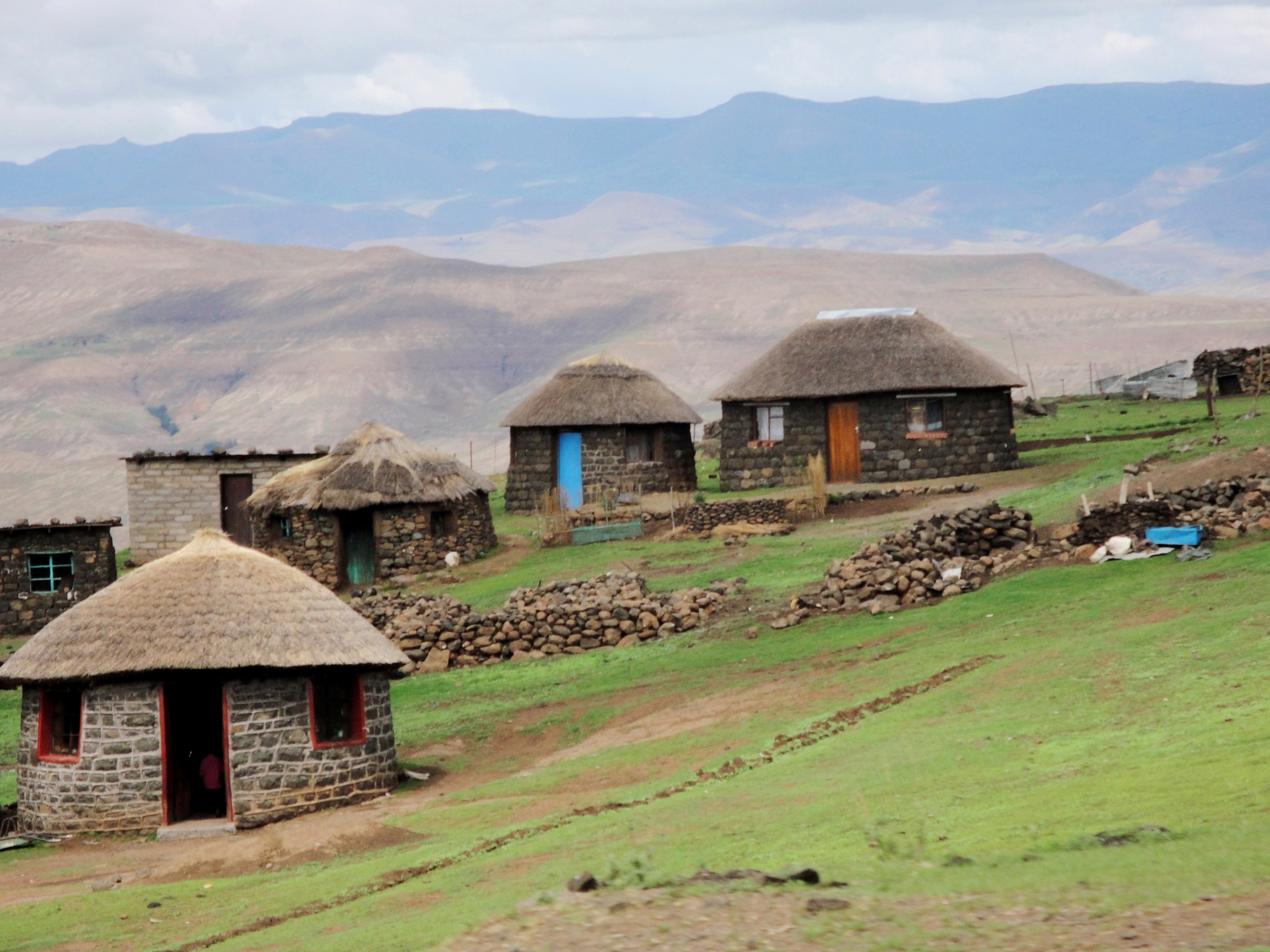 The USAID-supported Horse Riding for Health program engages local pony riders and motorcycle riders to transport blood tests, drugs, and supplies to Lesotho’s remote mountain health clinics. The system allows people to receive HIV test results sooner, access life-saving drugs, and ensure an uninterrupted supply of medication. Credit: Reverie Zurba/USAID.